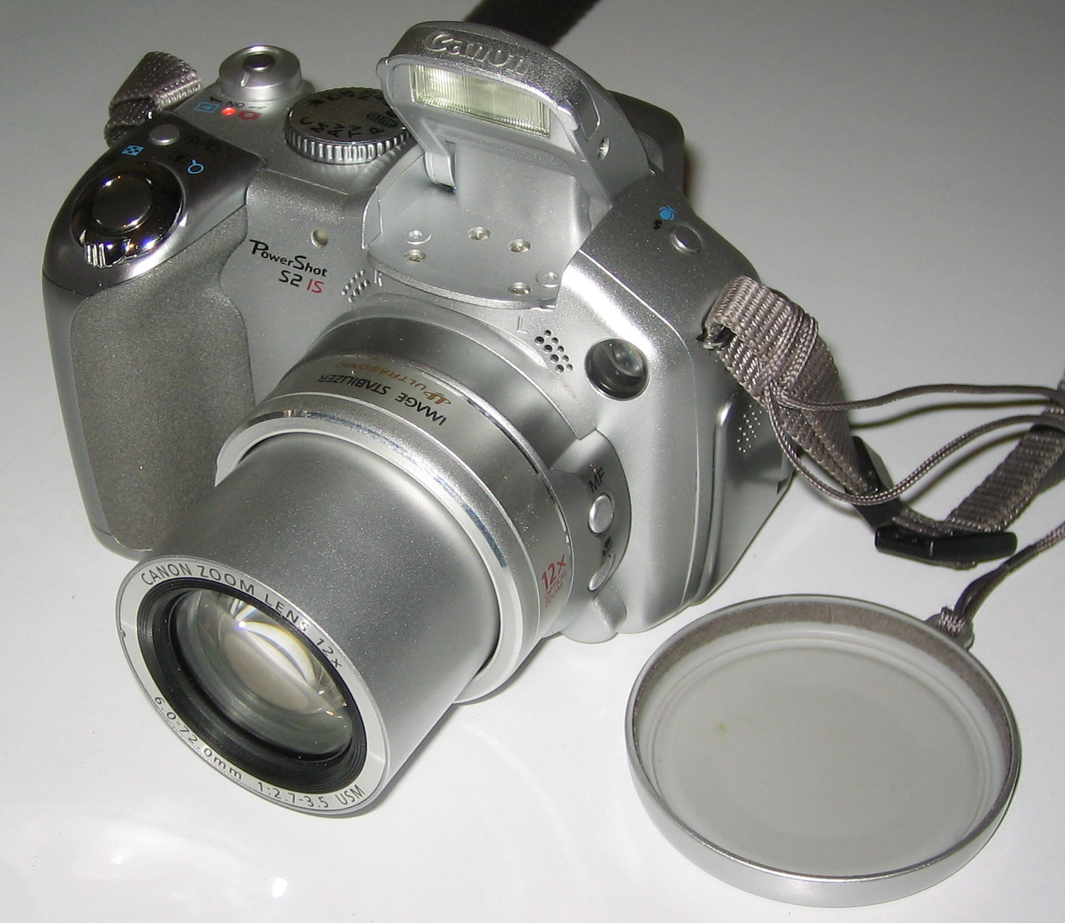 Canon S2 IS